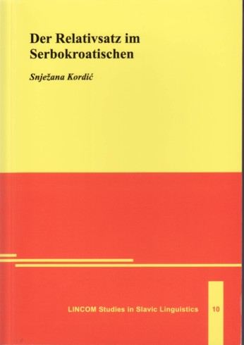 Book cover of Snježana Kordić's Der Relativsatz im Serbokroatischen 2nd pub. 2002